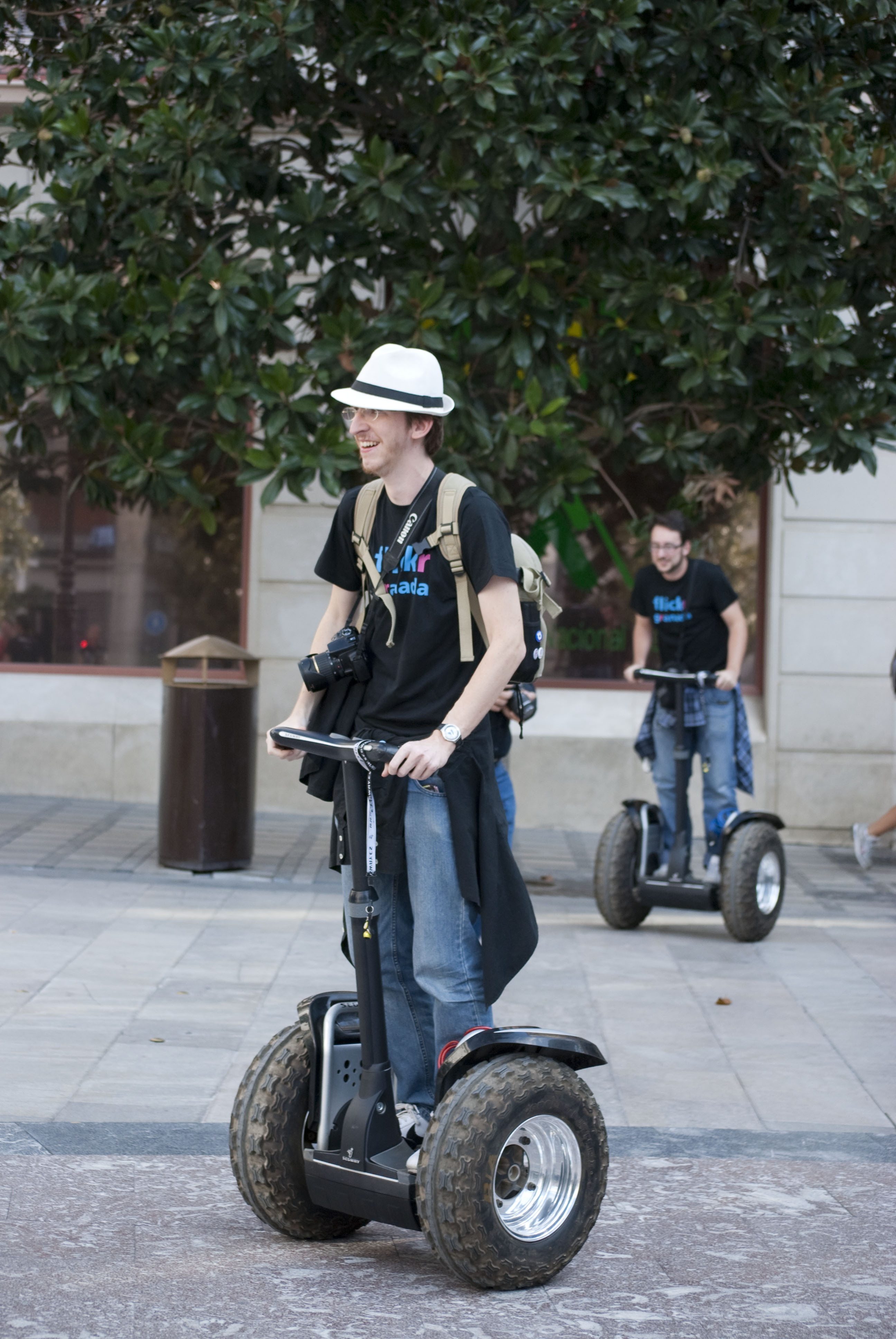 Segway XT